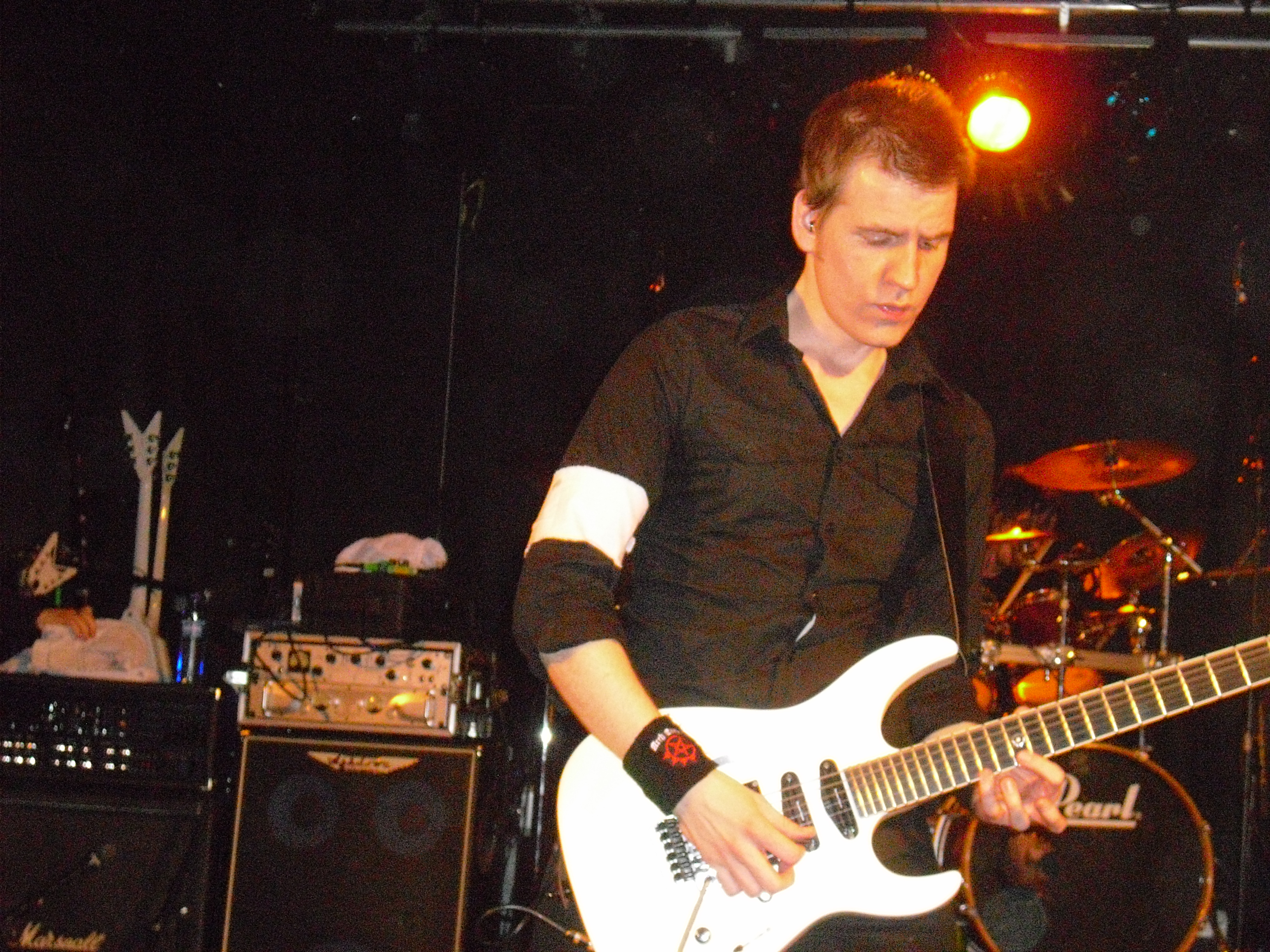 Christopher Amott performing with Arch Enemy at The Untouchables Hard Rock Club in Jevnaker, Norway